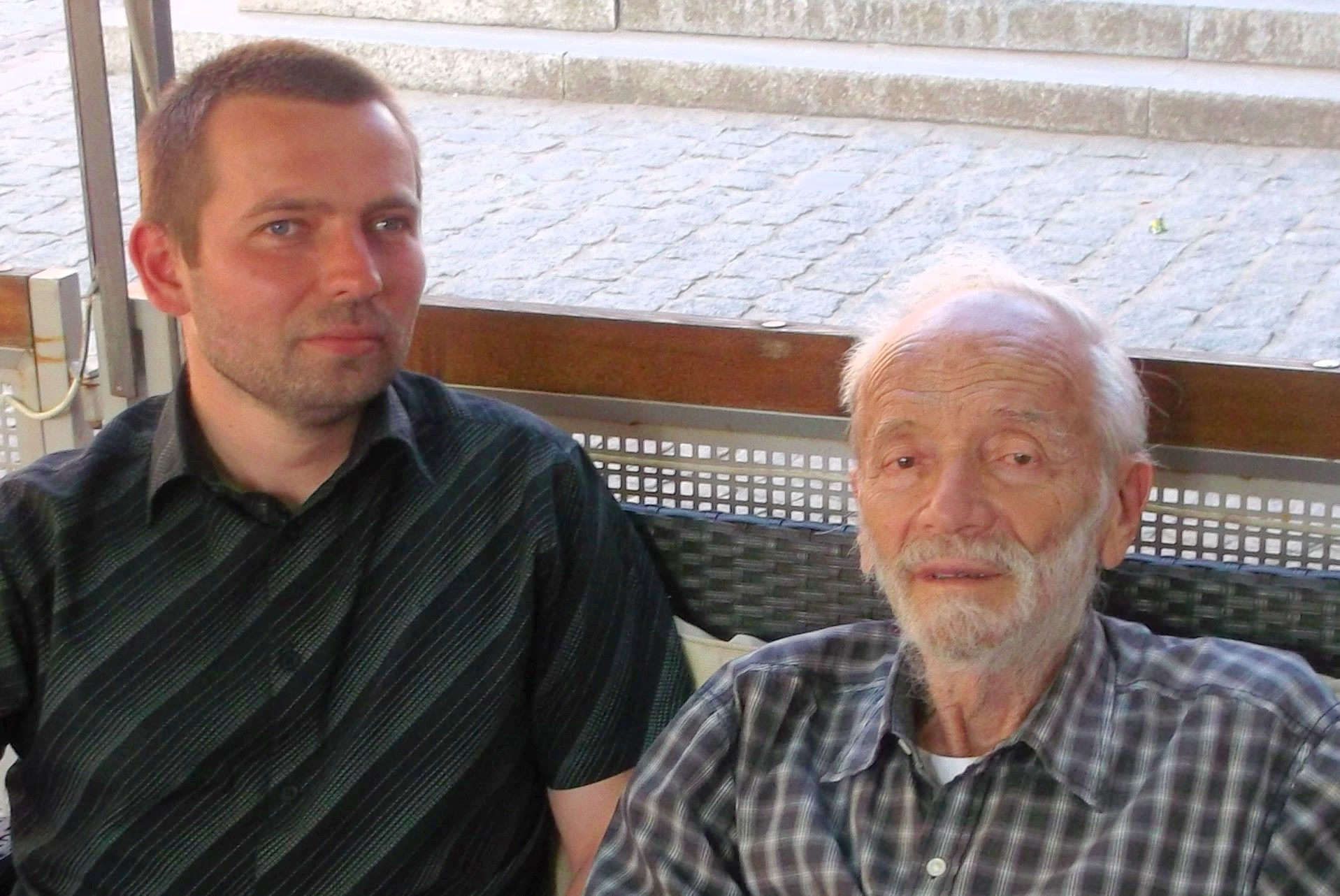 Dawid Jung (academic and poet) & Mordecai Roshwald (academic and writer) (2013)